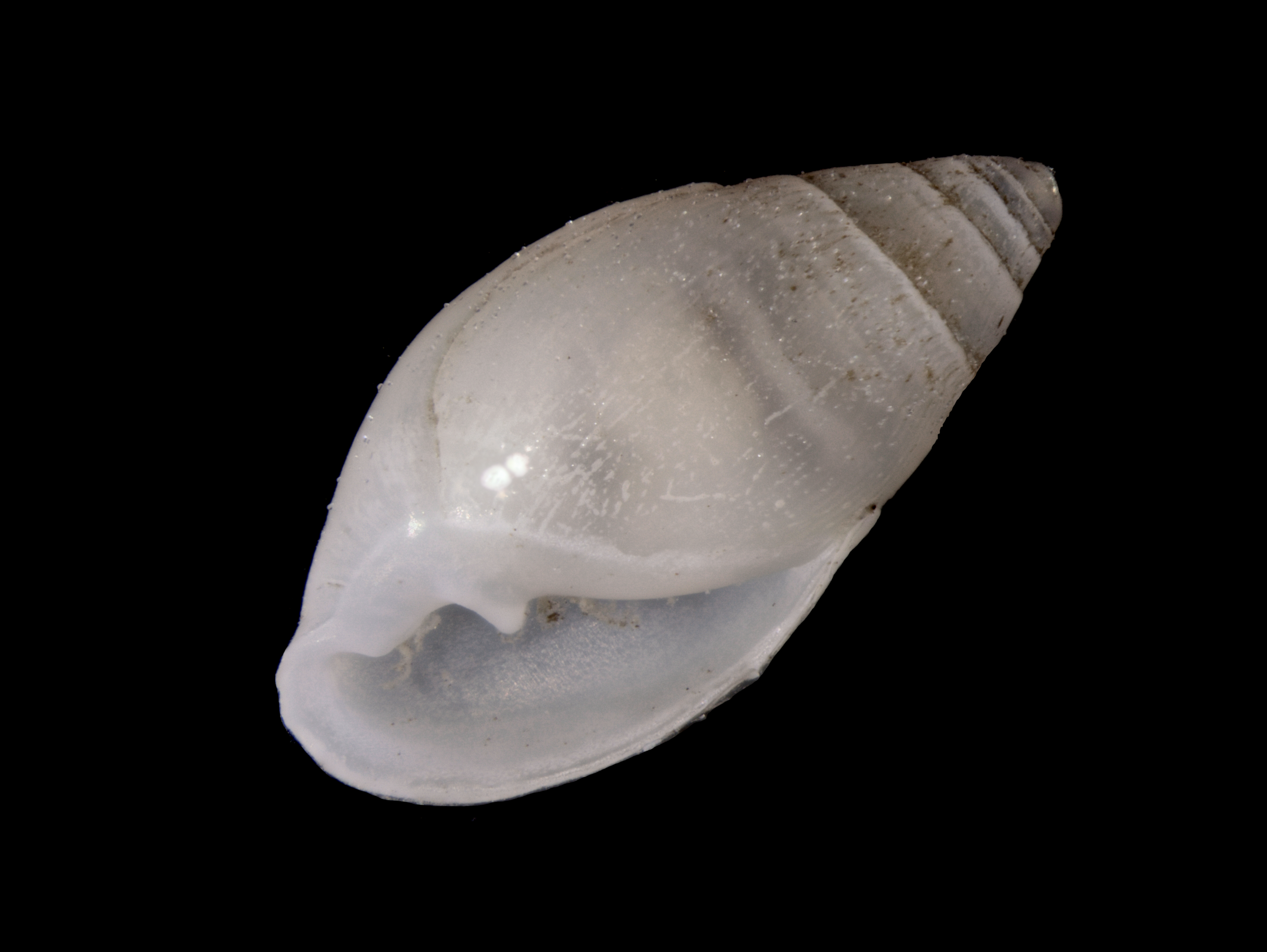 Small gastropod, taken with a Leica DFC 490 camera mounted on a Leica M205C binocular microscope. Collected in 2011 at the port of Zeebrugge, Belgium. Geo-location not applicable as the picture was taken in the lab.Height = ~5 mmFocus stacking of 30 pictures.